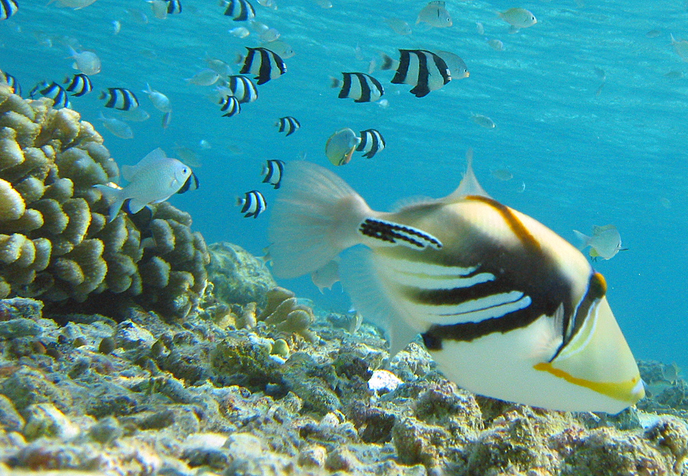 Picasso Triggerfish, Rhinecanthus aculeatus. Picture taken on the island of Fihalhohi in the Maldives.